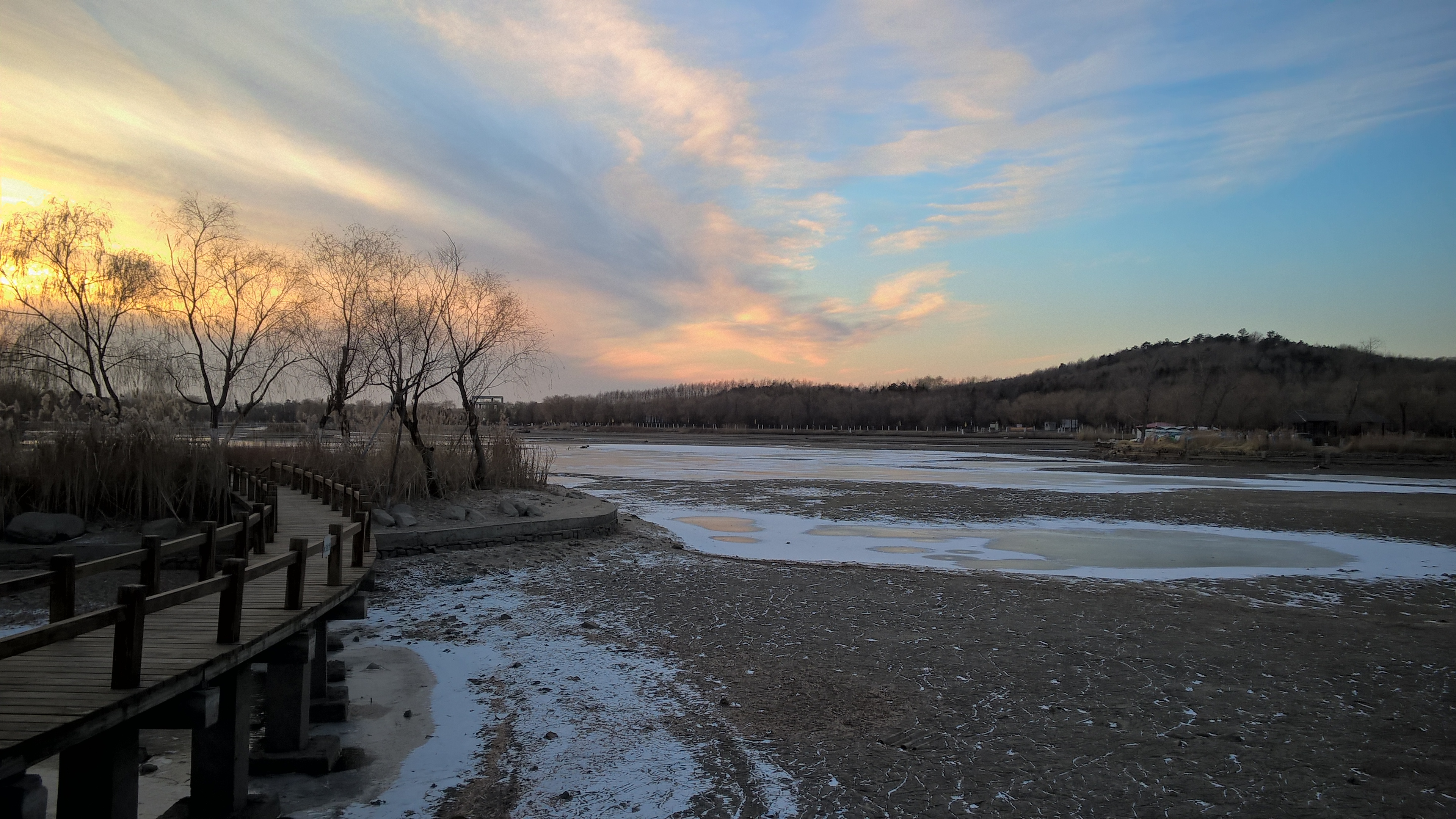 Lianhuahu Shidigongyuan, literally Lotus lake wet land